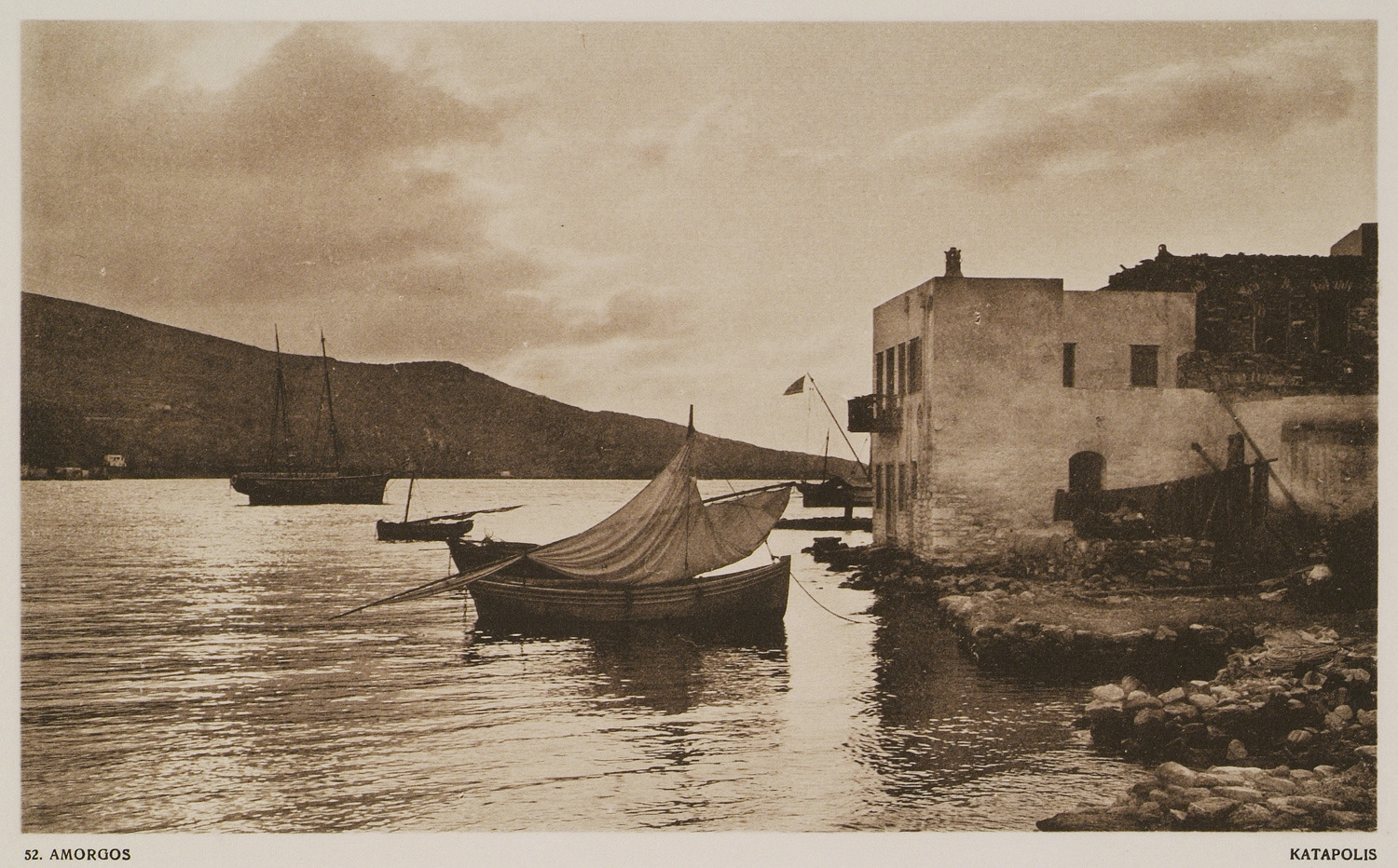 Frédéric Daniel Boissonnas Baud-Bovy. Des Cyclades en Crète au gré du vent, Geneva, Boissonnas & Co, 1919.